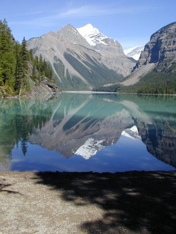 Picture taken by me on Mount Robson Trail in 2003.